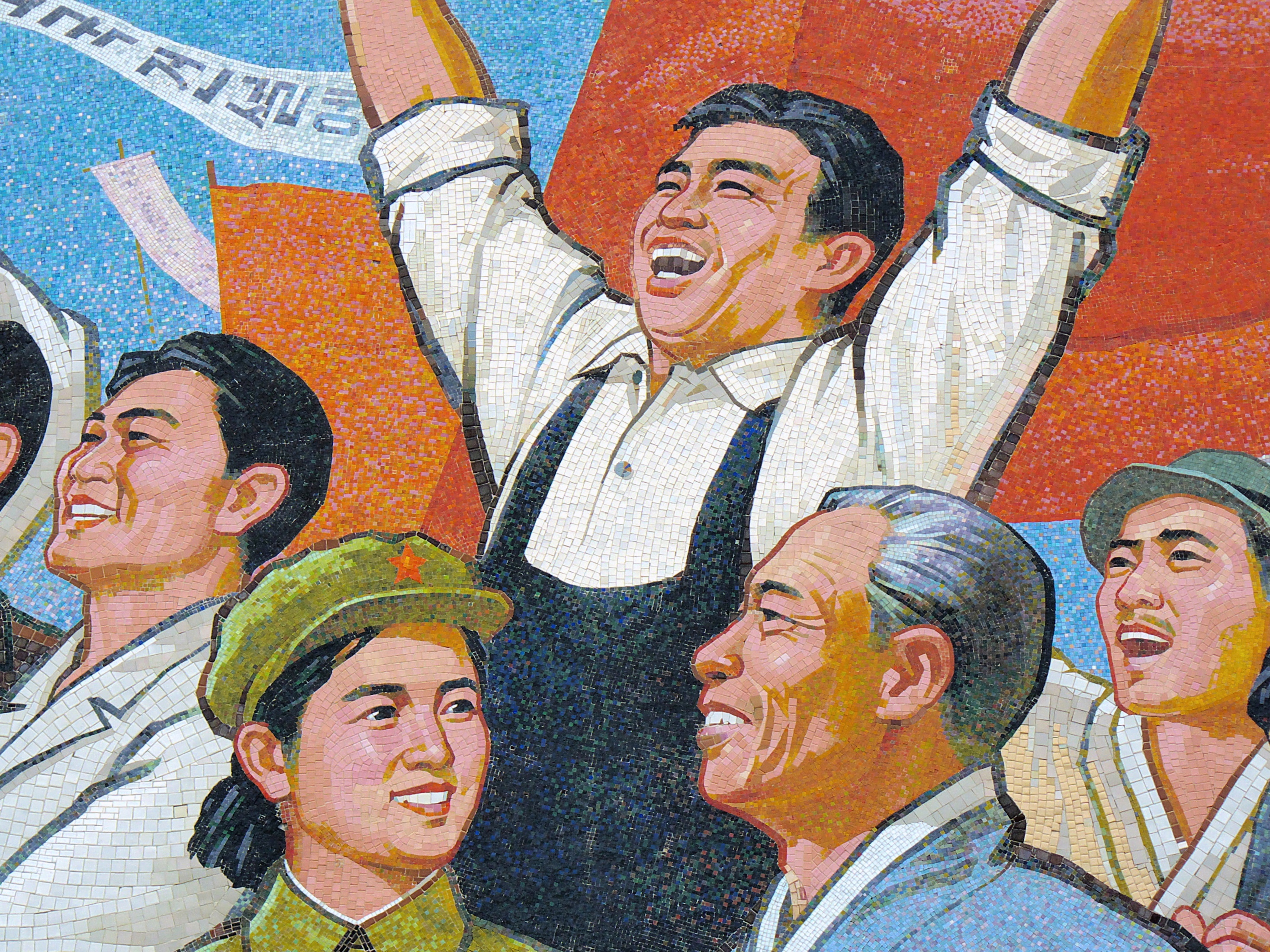 Pyongyang's Arch of Triumph commemorates the triumphant homecoming of Kim Il Sung after he "liberated Korea from Japan". This mosaic, not far from the arch, depicts the said event.